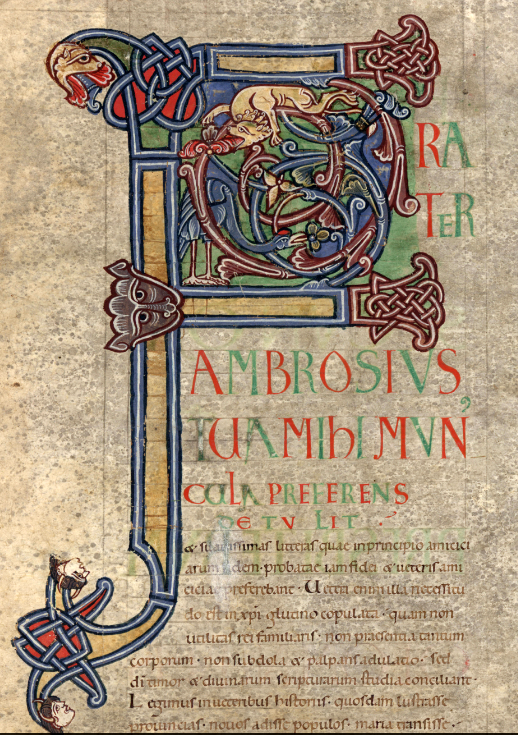 Illuminated F from 11th century bible